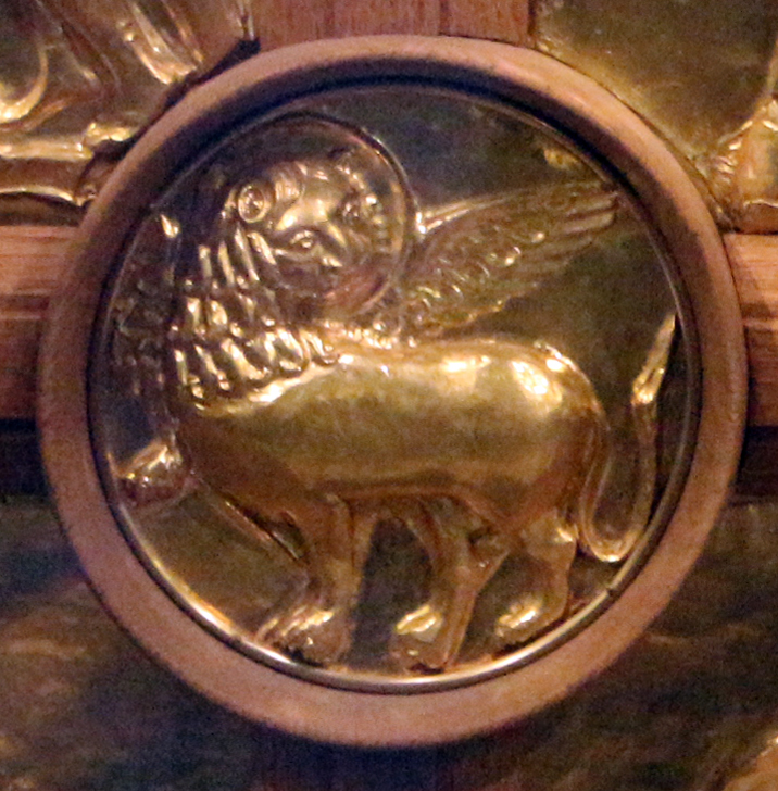 Pala d’oro (Aachen)